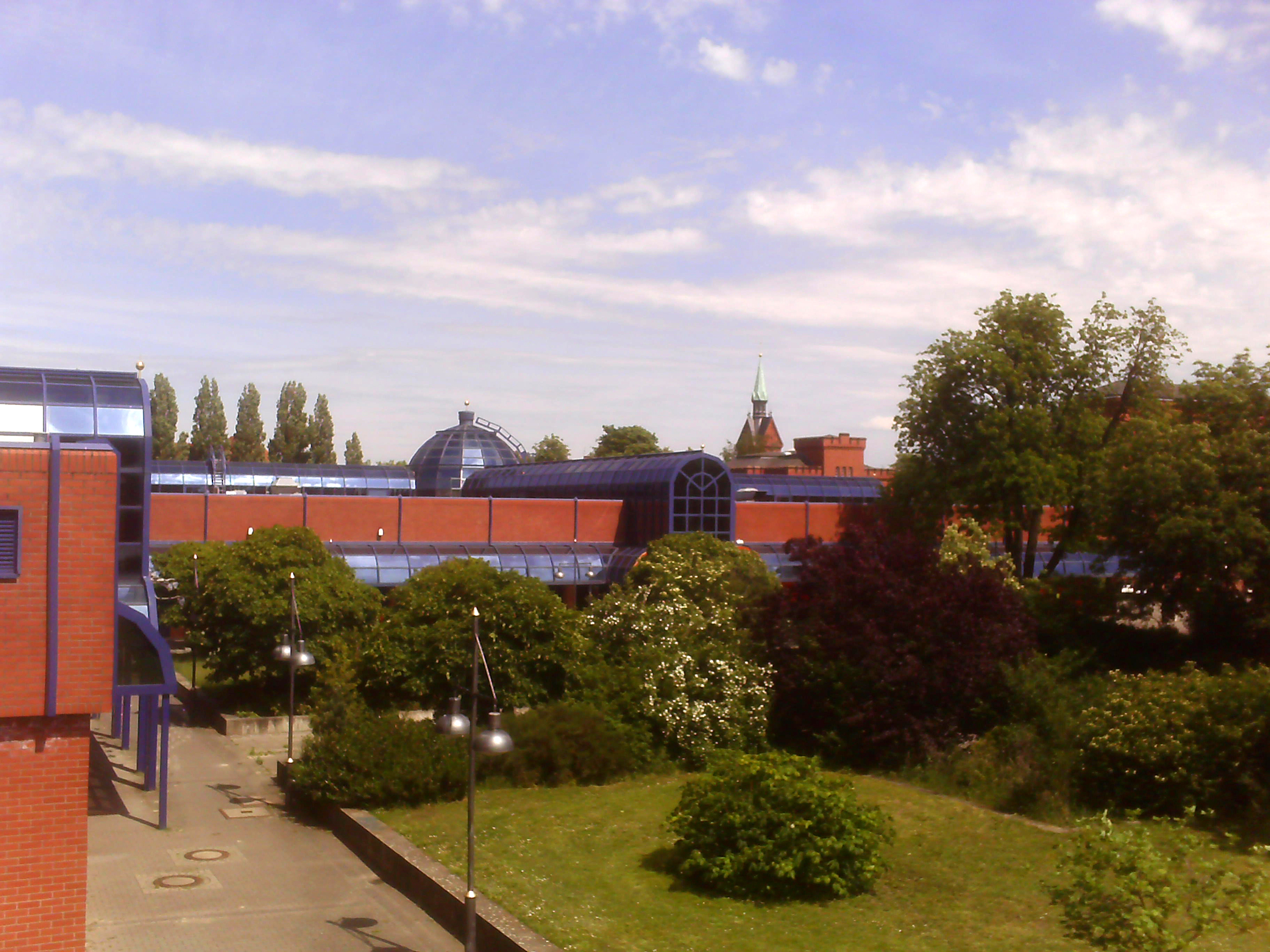 View onto the former Shopping Complex of the former Britannia Centre Spandau in May 2009.